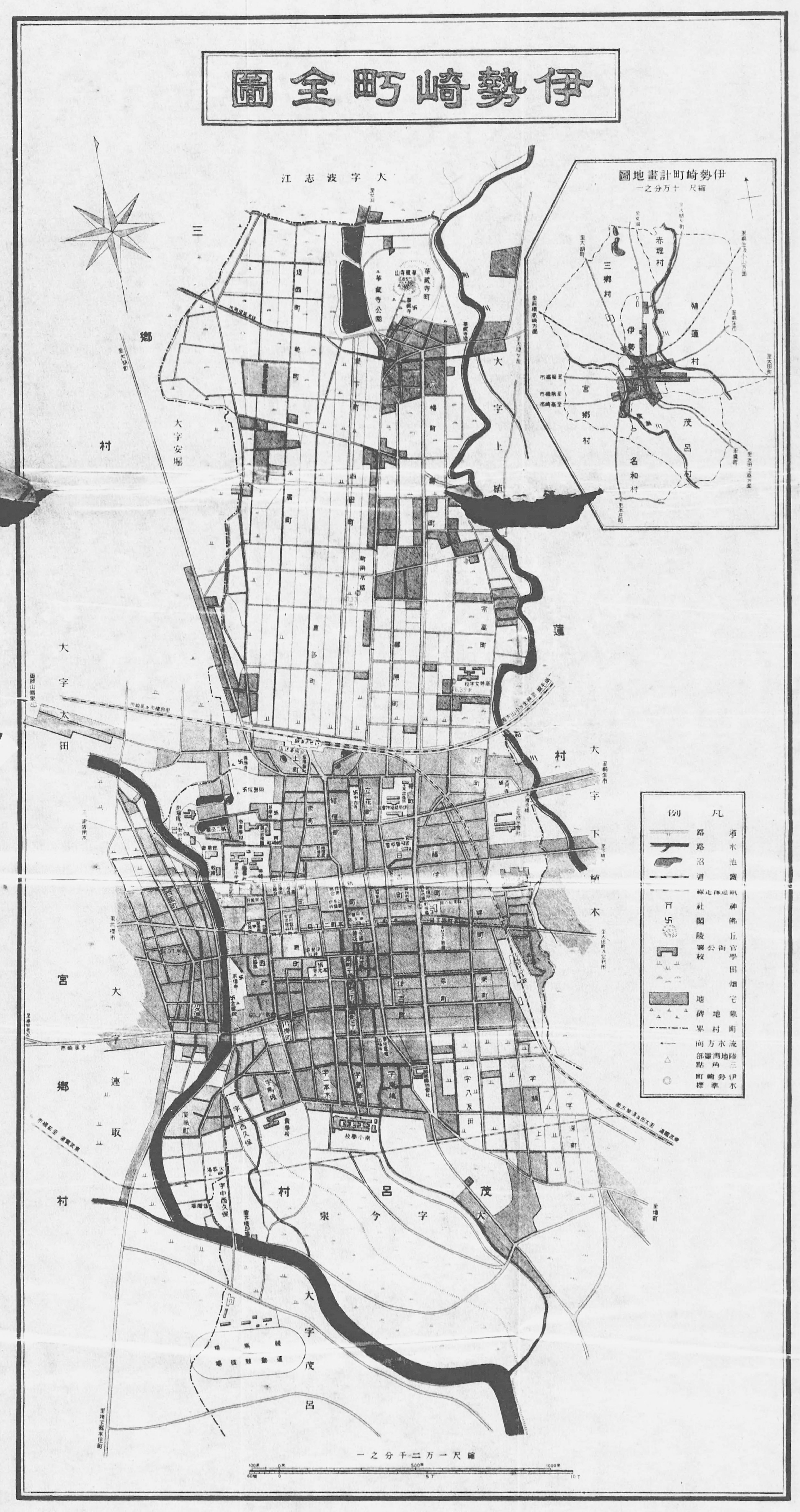 Isesaki town map.